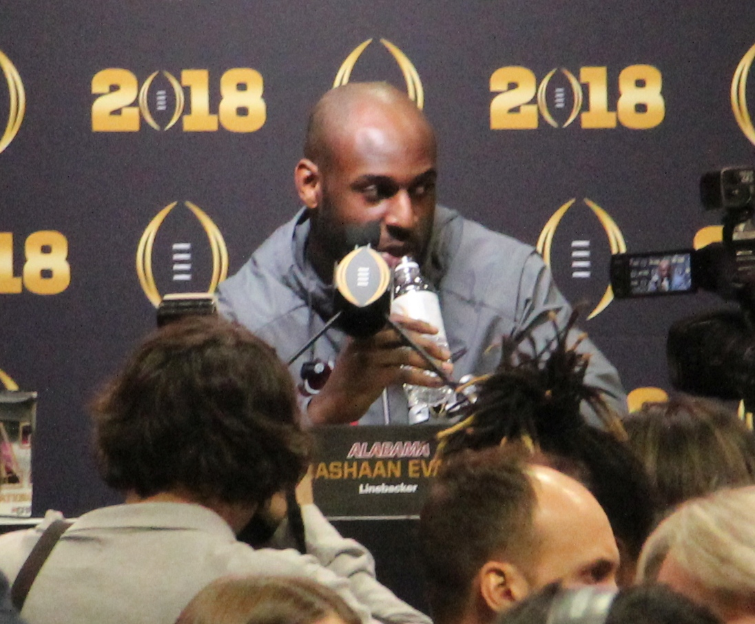 Rashaan Evans in 2018